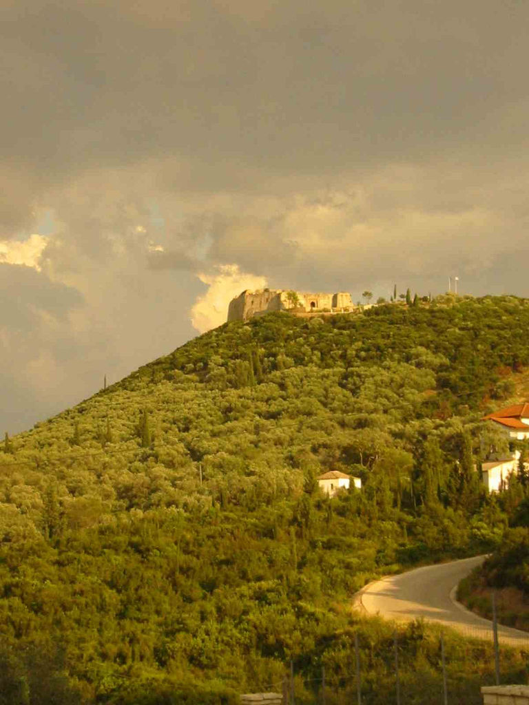 A castle built by Ali-Pasha in the nothern Greek village Trikorfo.